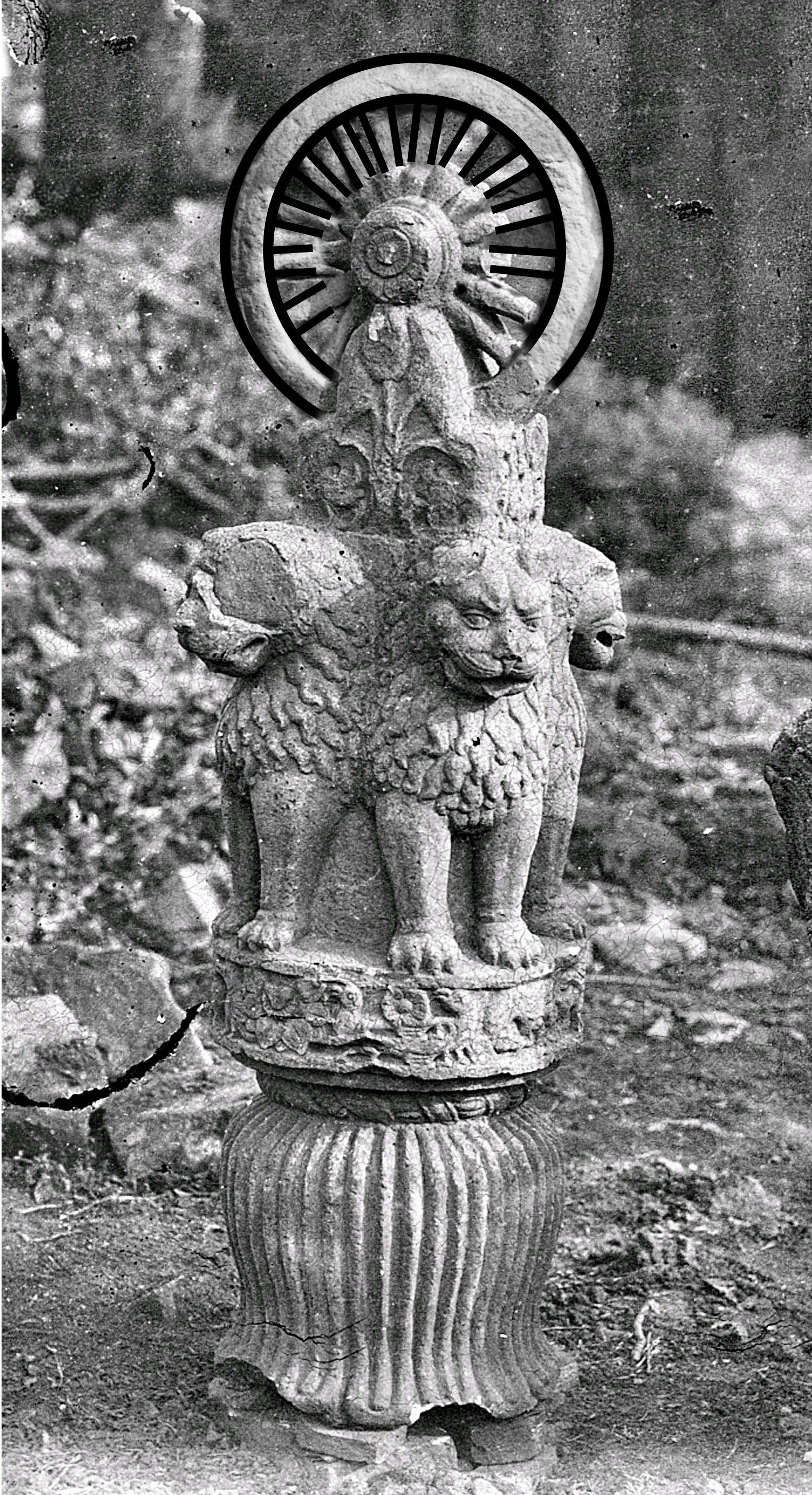 Sanchi Ashoka pillar capital, reconstitution of the wheel